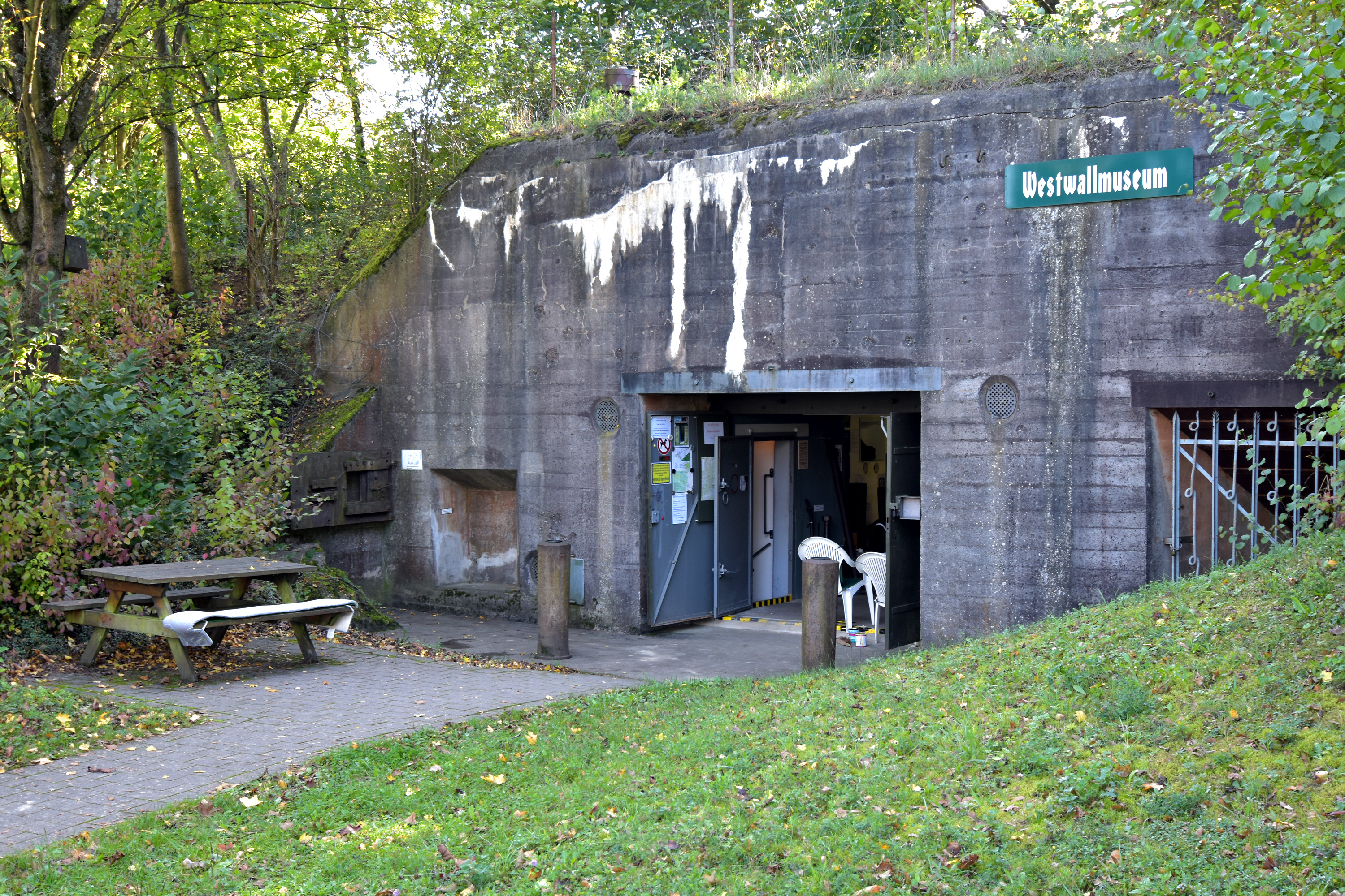 Siegfried Line, Westwallmuseum Bad Bergzabern